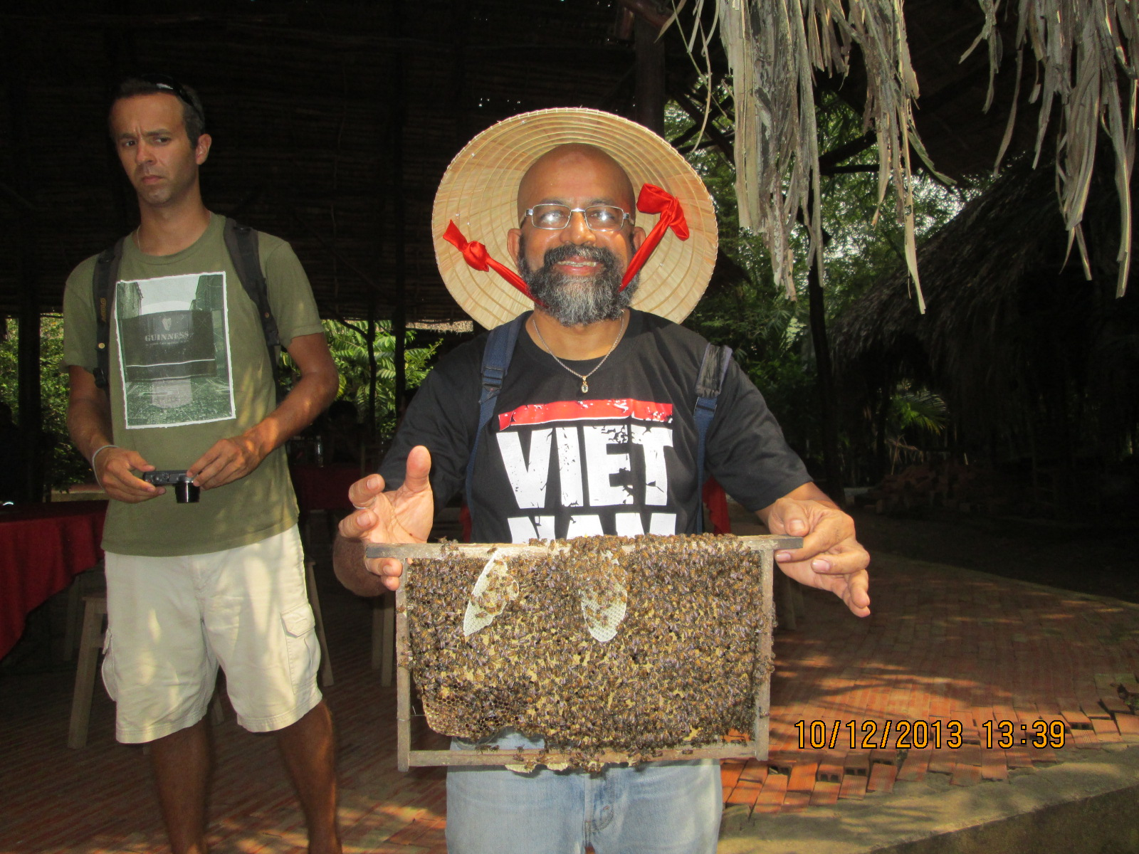 A packaged tour visit to a bee farm in Ben Tre village.